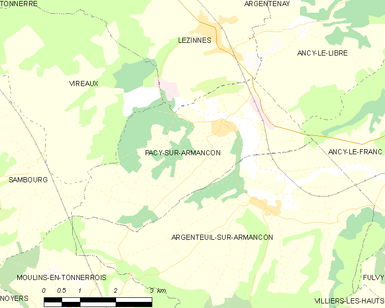 Map of French municipality Pacy-sur-Armançon